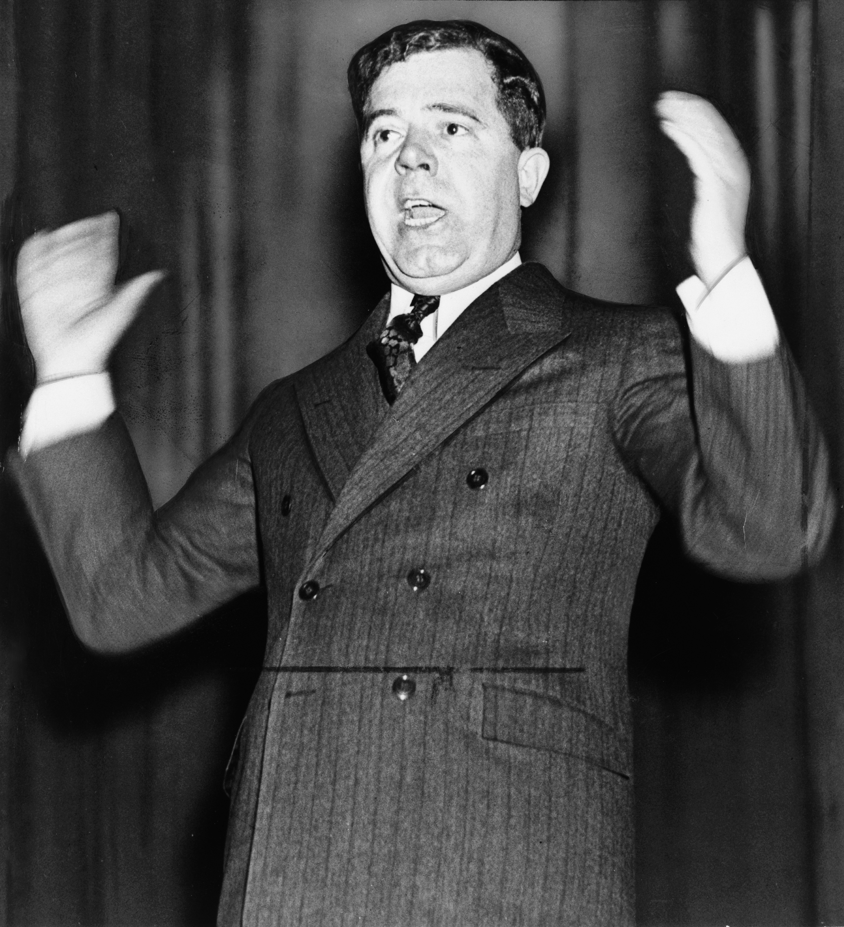 Senator Huey P. Long of Louisiana, half-length portrait, standing, facing left, gesturing with both arms, as he speaks.